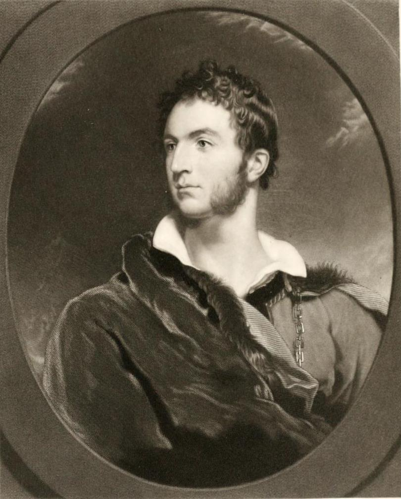 John Hare Powel. Engraving by John Sartain from an 1810 portrait by Sir Thomas Lawrence.